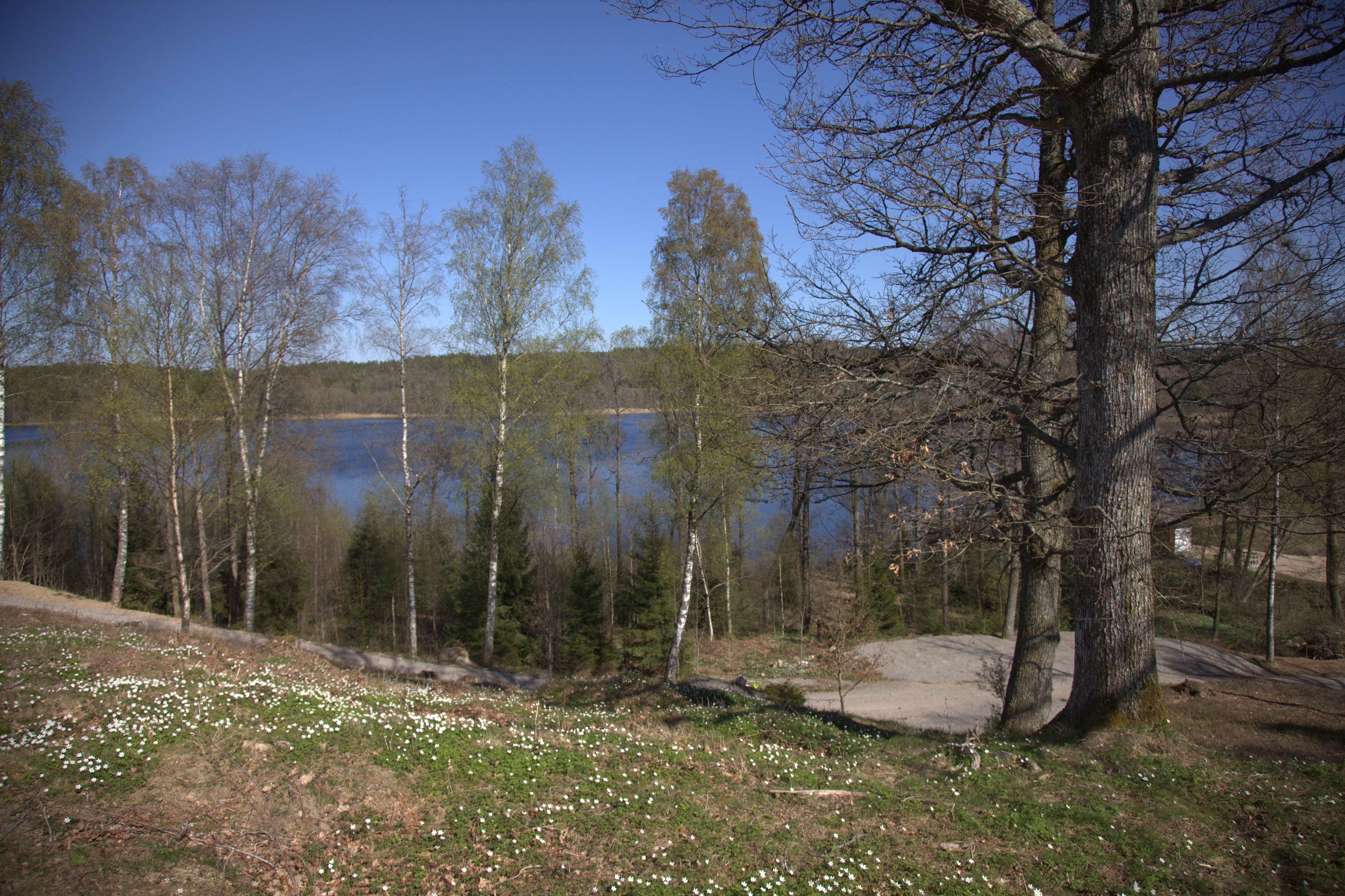 Backamo flygfält outside Stenungsund